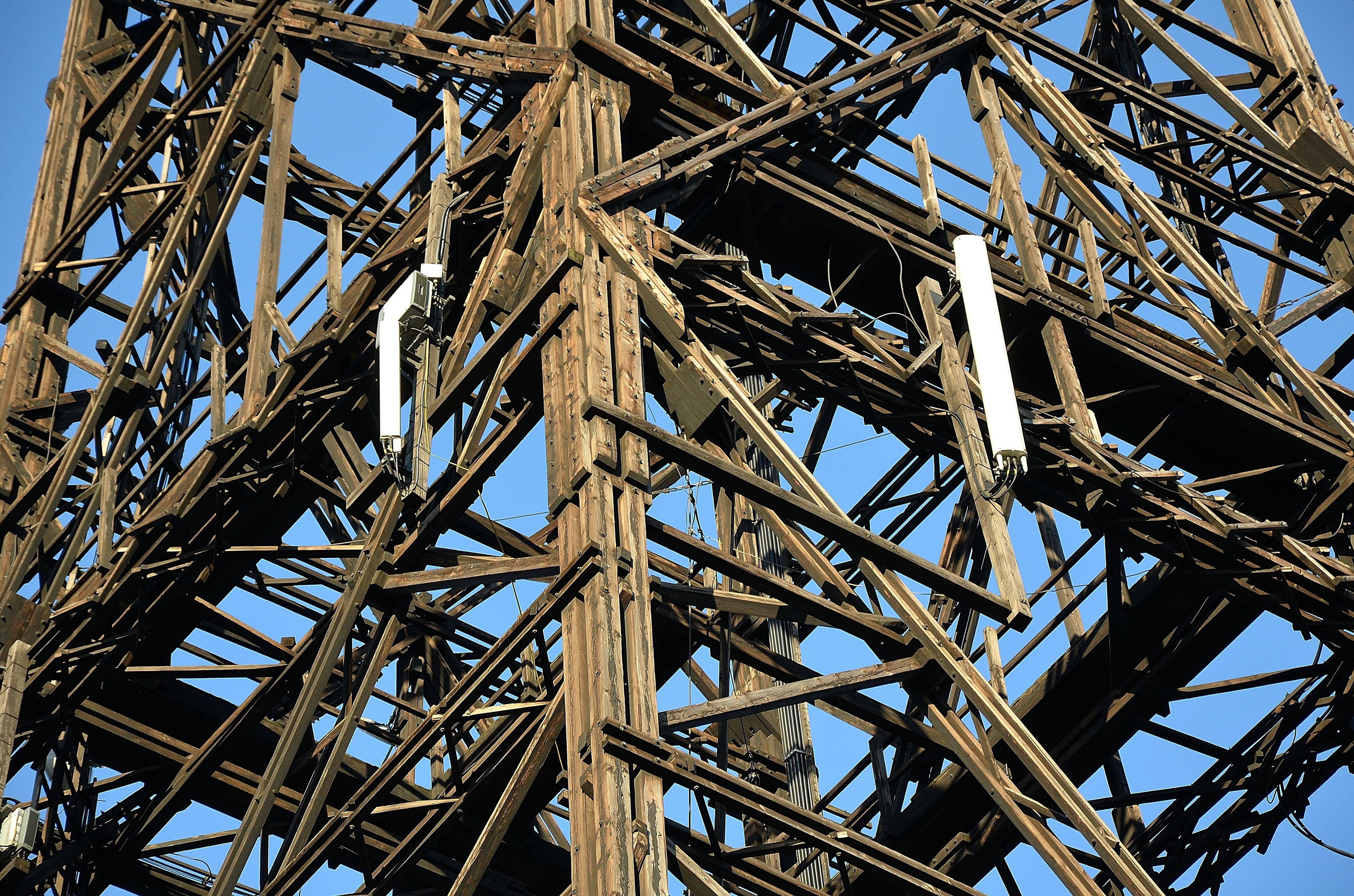 A close-up of the Gliwice Radio Tower.